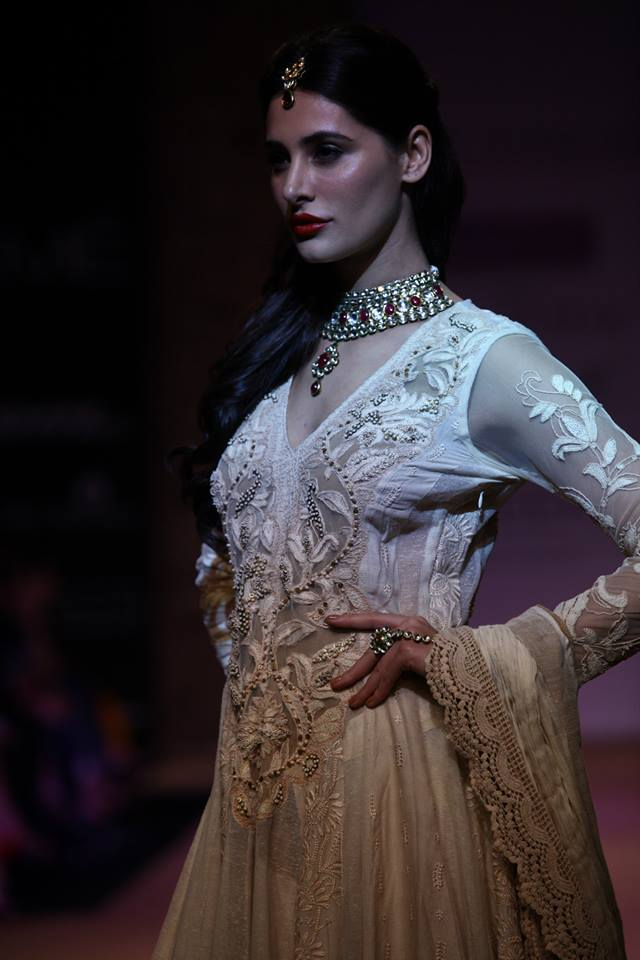 Nargis Fakhri in Ritu Kumar's ensemble at Lakme Fashion Week at Grand Hyatt Mumbai, by SouBoyy, Sourendra Kumar Das.